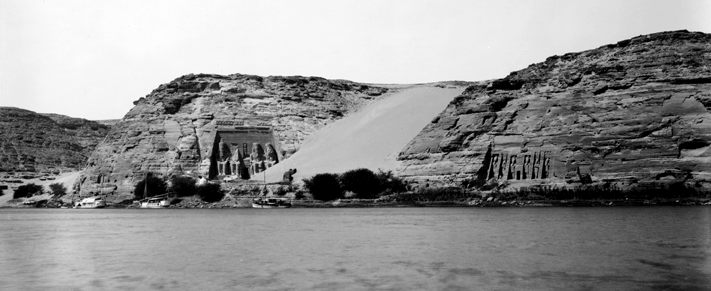 Abu Simbel - General View of Great and Small Temples